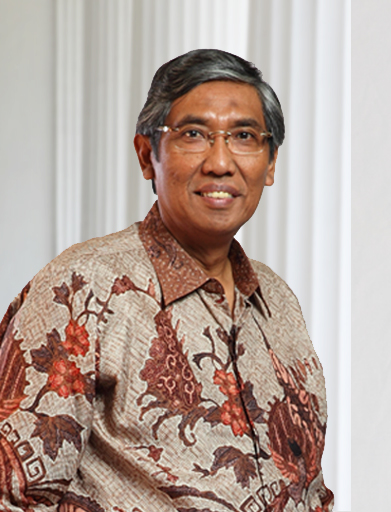 Mardiasmo as Vice Minister for Finance of Indonesia in Working Cabinet (Joko Widodo)